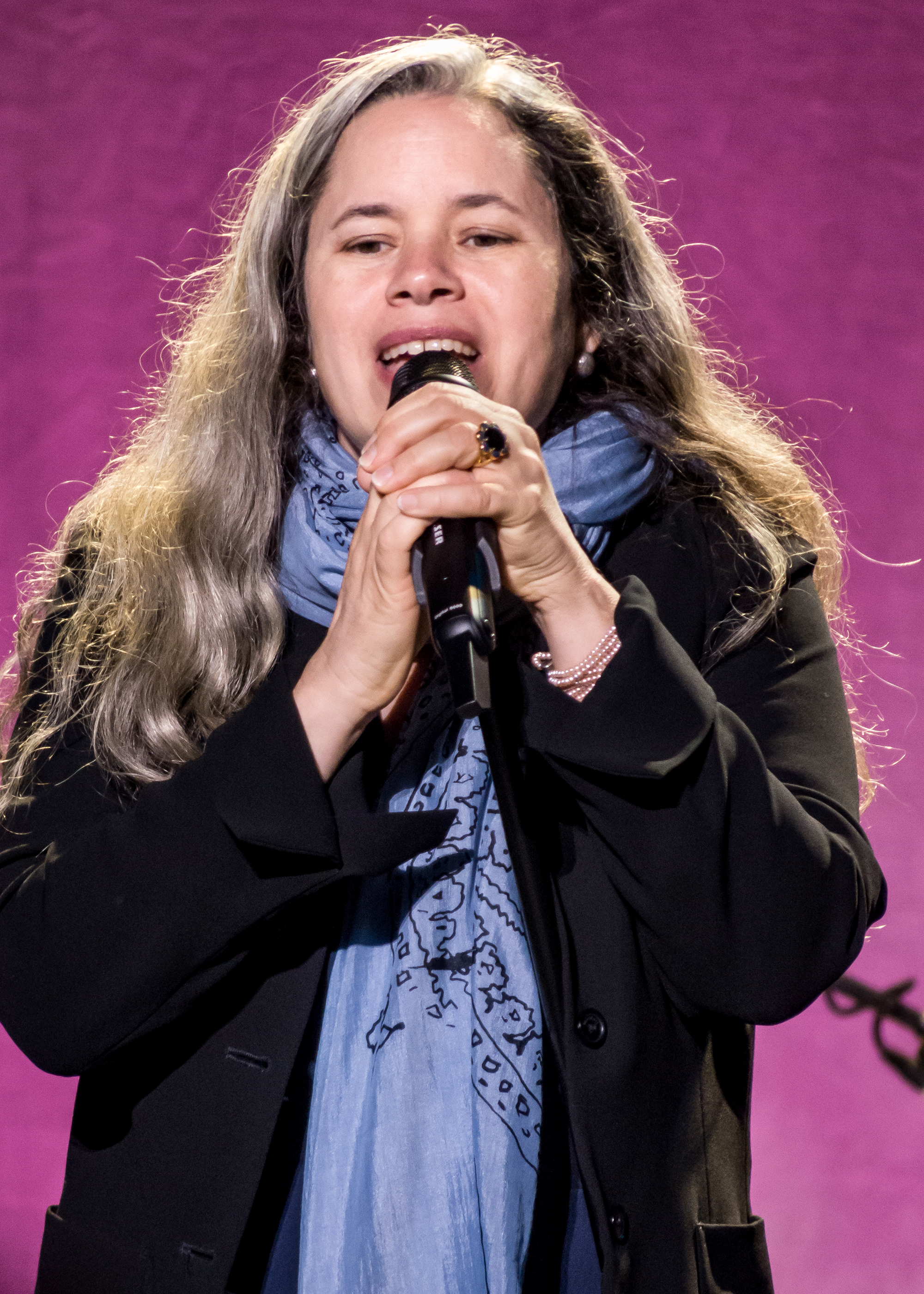 Natalie Merchant performing live at the Santa Barbara Bowl in Santa Barbara California on Saturday, July 15, 2017. The first of five California dates on her "3 Decades of Song" Summer tour.